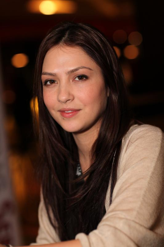 Cassie Laine at the 2013 AVN Expo & AVN Awards. Photos from the 2013 AVN Expo & AVN Awards held at the at the Hard Rock Hotel & Casino in Las Vegas. Please provide photographer credit when using, tweeting, etc... Photo by Michael Dorausch This photo is licensed under a Creative Commons license. If you use this photo within the terms of the license or make special arrangements to use the photo, please list the photo credit as "Michael Dorausch" and link the credit to .